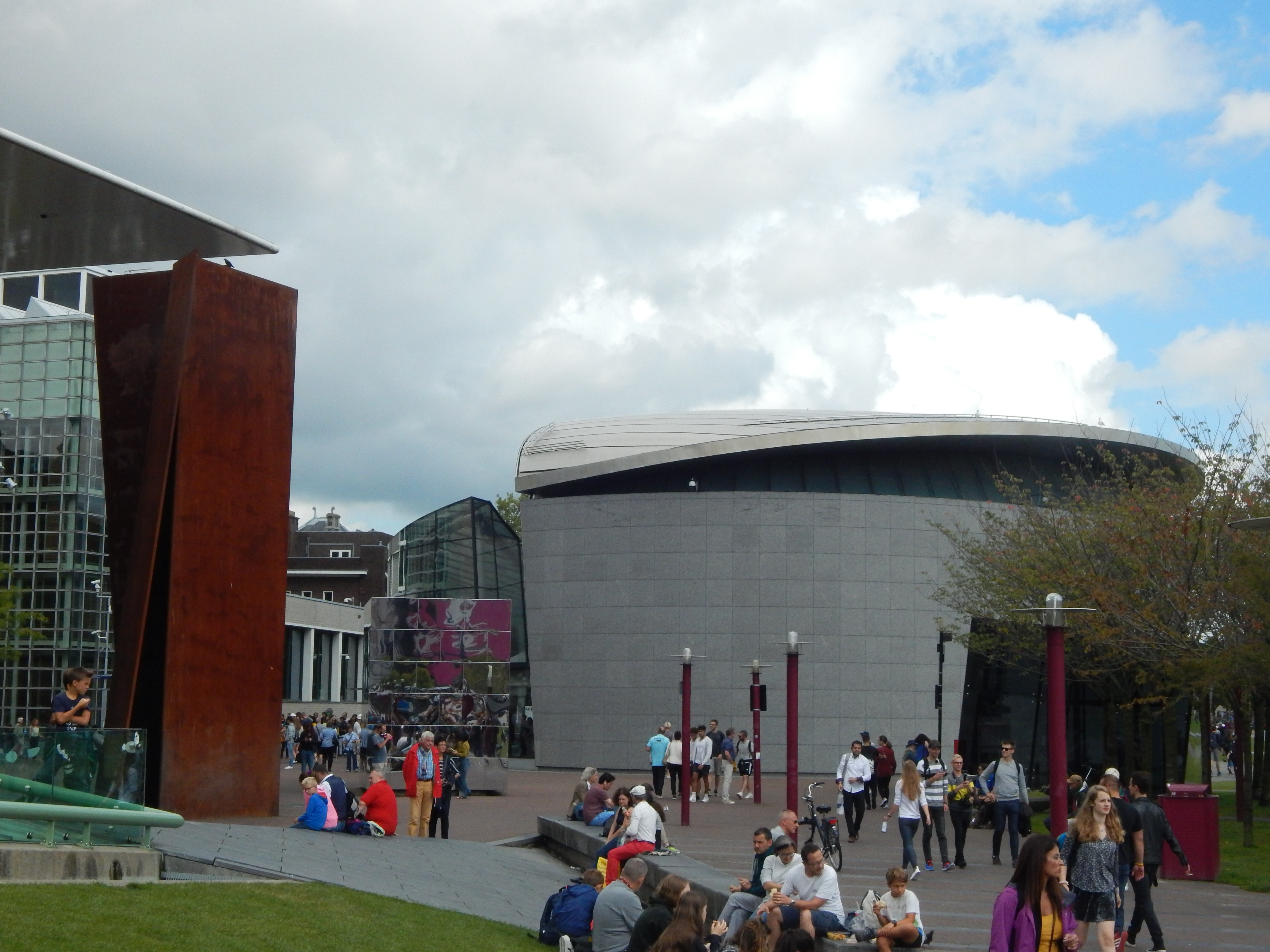 Sight Point (for Leo Castelli), Sculpture by Richard Serra, Stedelijk museum, Museumsplein, Amsterdam